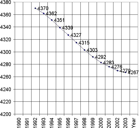 Moldova's population. Source: Numeric data are from FAOSTAT database: (last updated 9th february 2005)